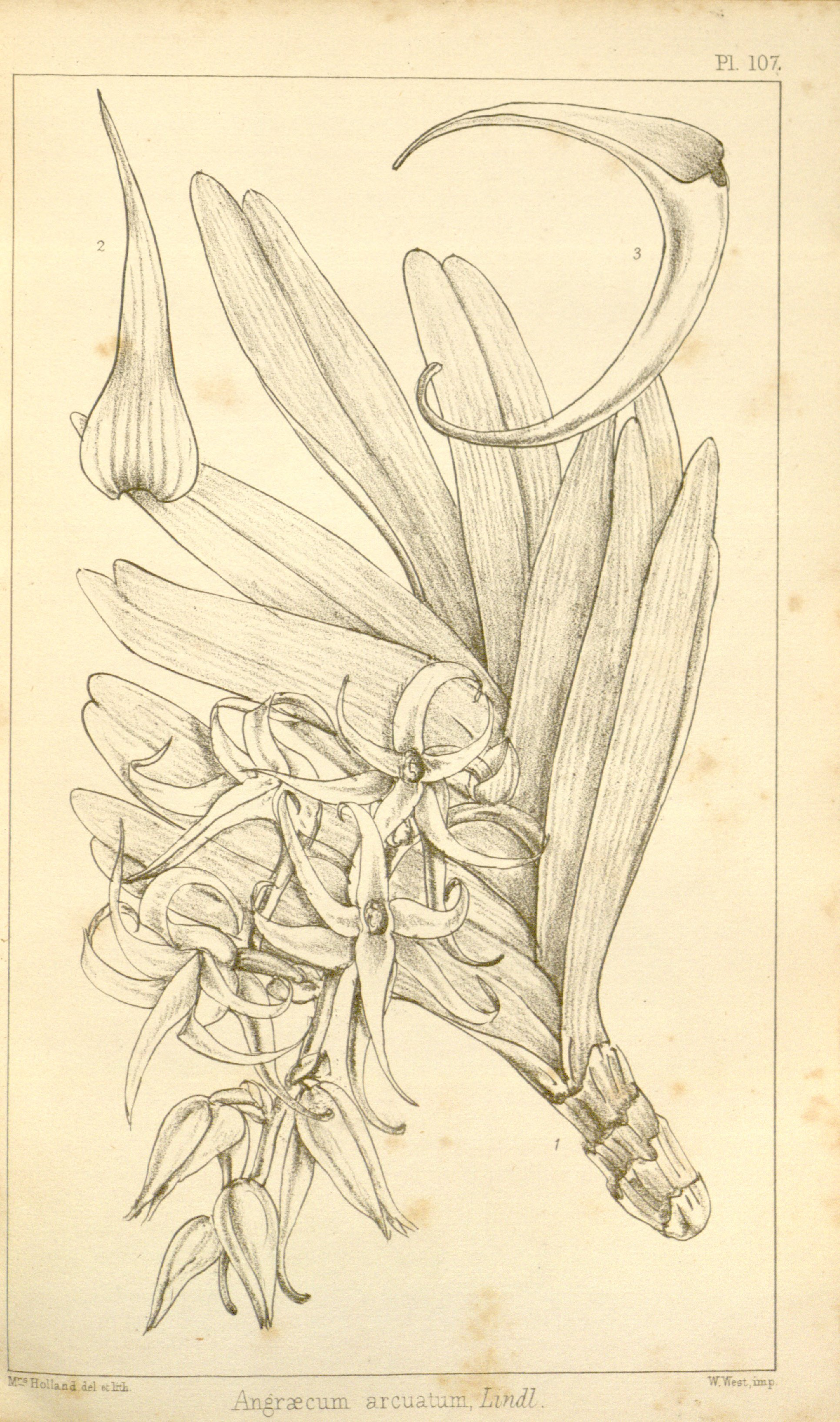 Cyrtorchis arcuata (Lindl.) Schltr. [as Angraecum arcuatum Lindl.] - William Henry Harvey, Thesaurus capensis, or illustrations of South African flora, vol. 2: t. 107 (1863) [W.H. Harvey] (1811-1866)